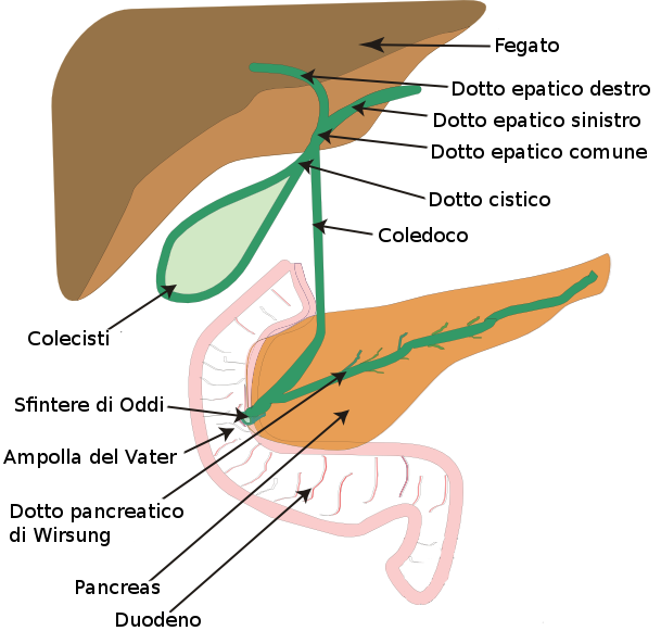 Corrected the location where two ducts join according to request from Illustration workshop